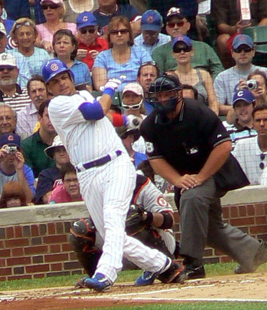 Aramis Ramírez single drives in Ryan Theriot move approved by User:Common Good